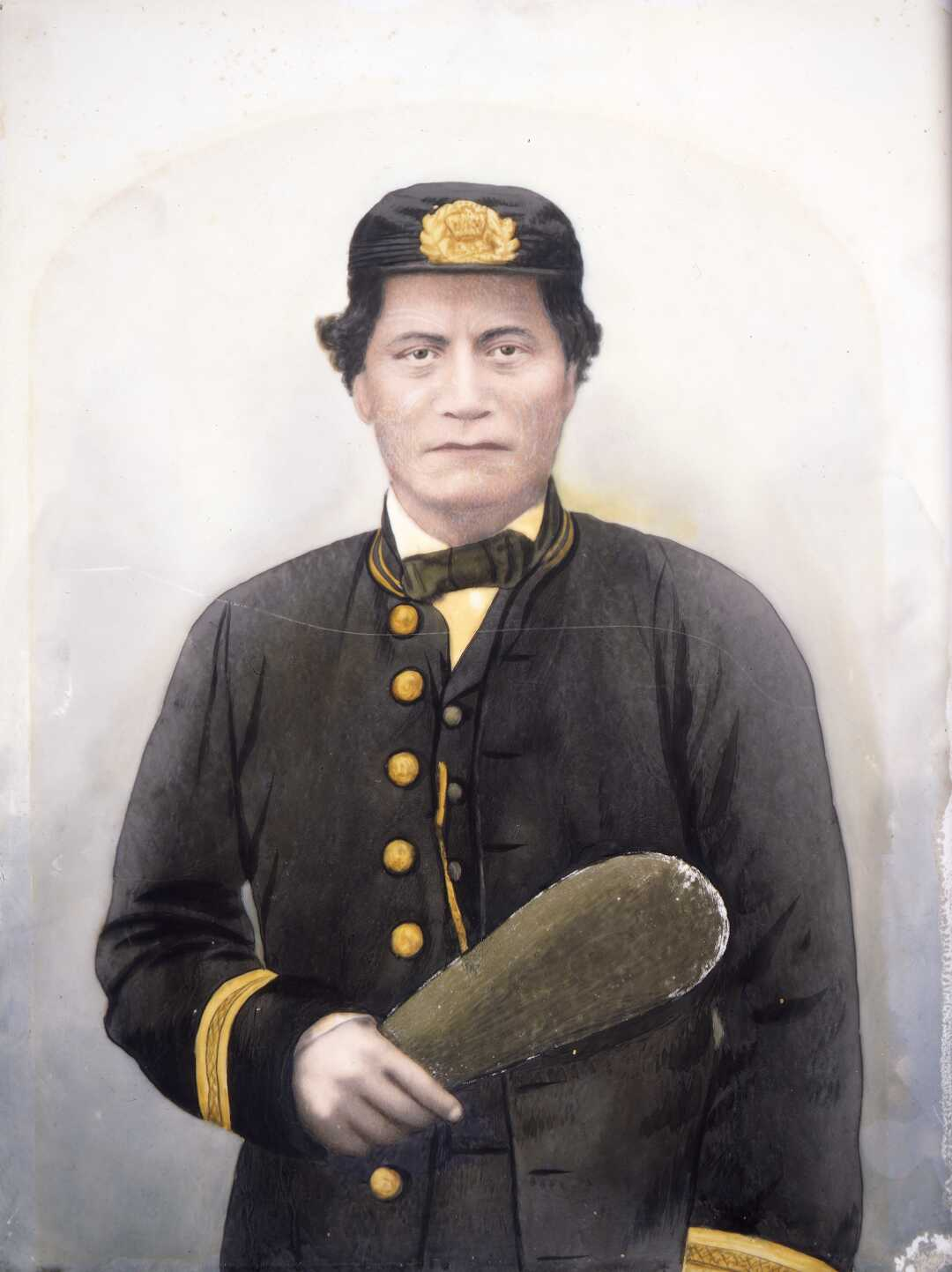 Portrait of Rawiri Puaha in European dress holding a mere. c.1890s Artist unknown. Reference number: G-606 Oil over opaltype photograph 374 x 270 mm Drawings, Paintings and Prints Collection, Alexander Turnbull Library Note:The Museum had mistakenly claimed copyright over this picture, which is beyond their legal rights.